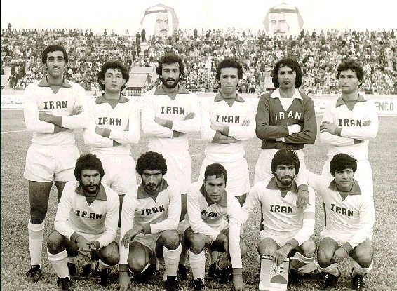 IRAN national football team in match against Kuwait, 1977